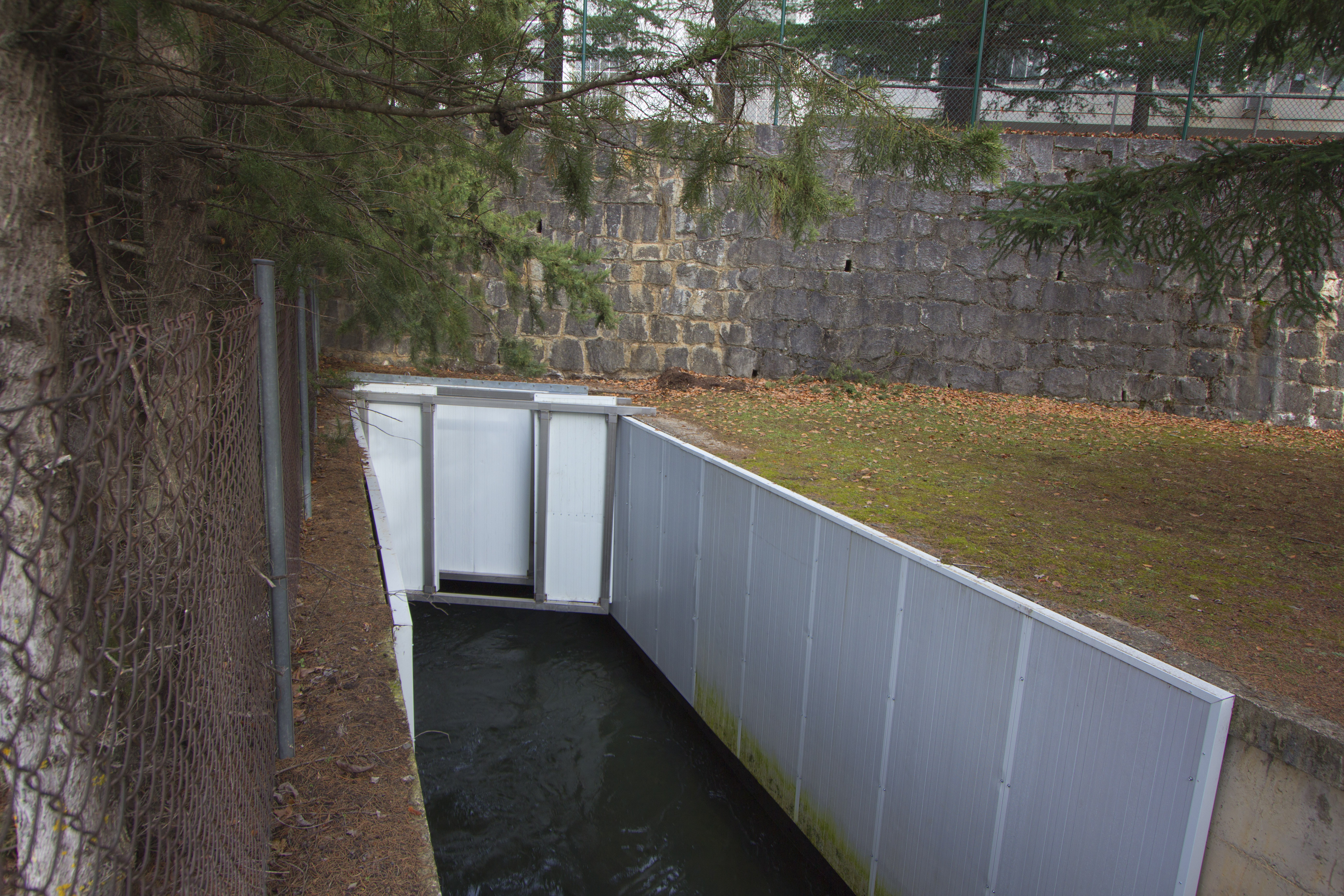 Esterri d'Àneu hydropower plant, phonoabsorbent panels